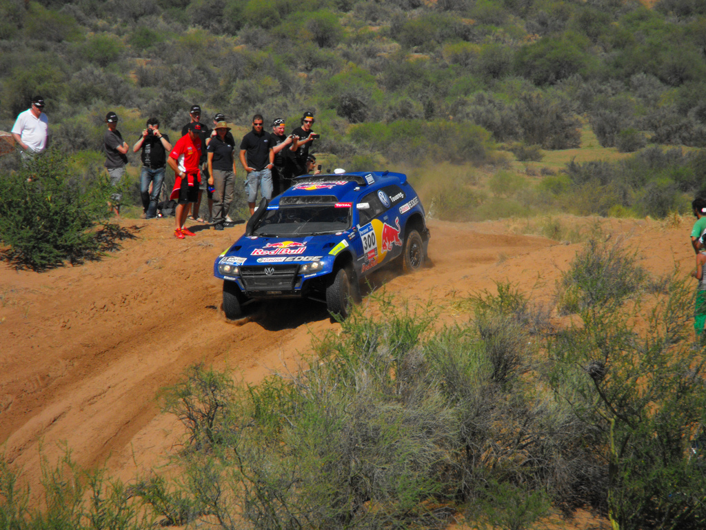 Racing no. 300 Volkswagen Race Touareg driven by Carlos Sainz during 2011 Dakar